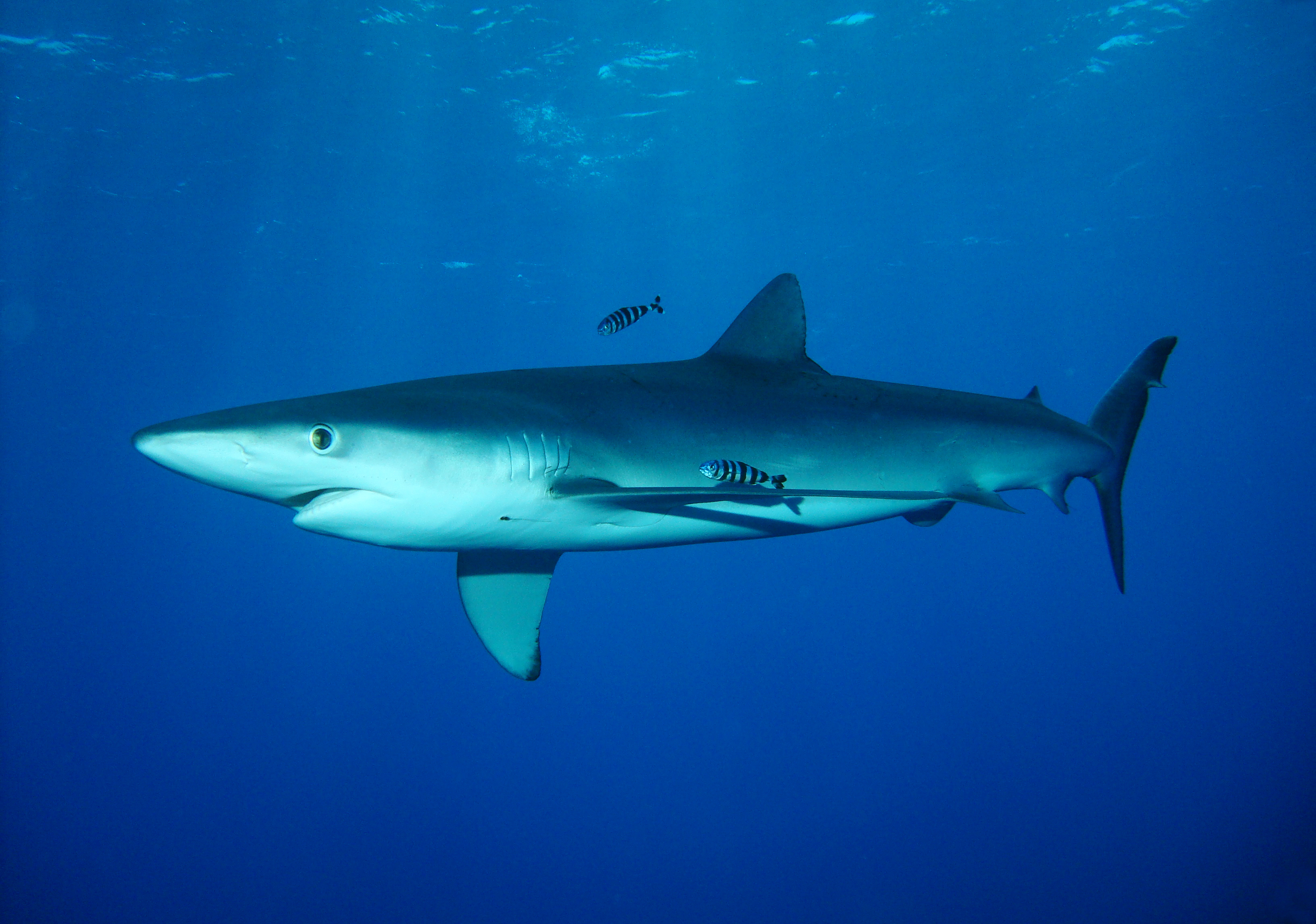 Blue shark at Banco Condor, Faial, Azores